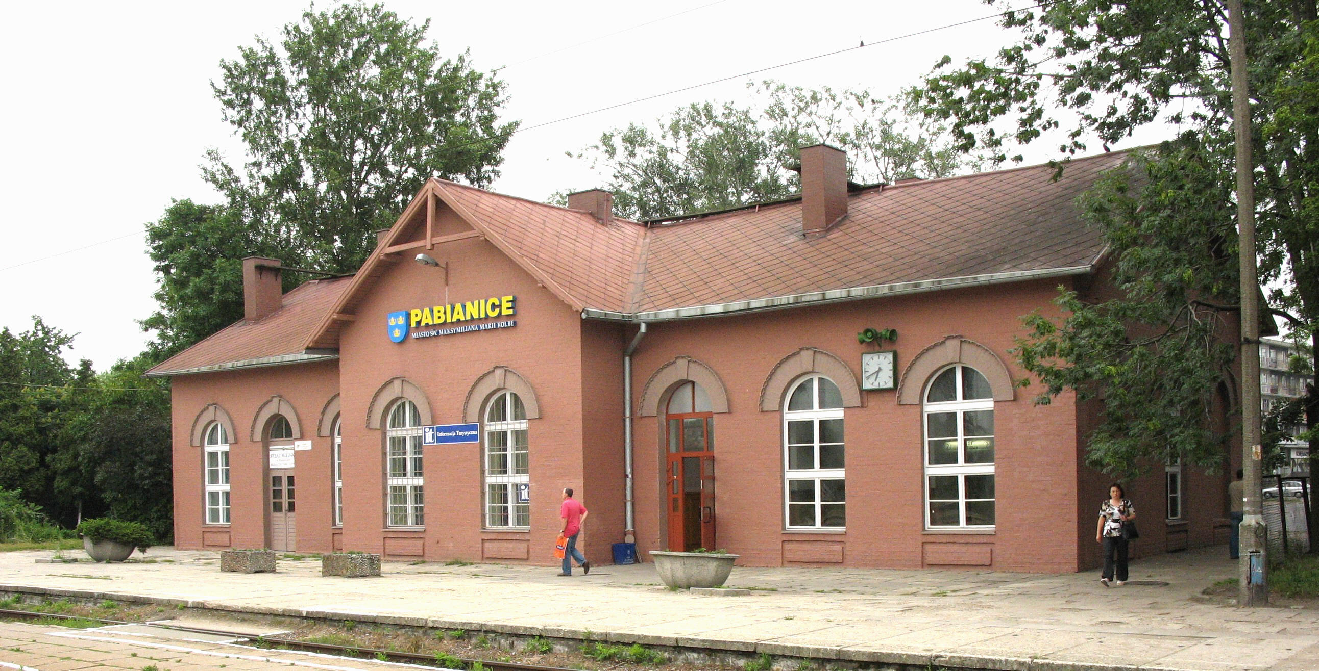 Train station in Pabianice